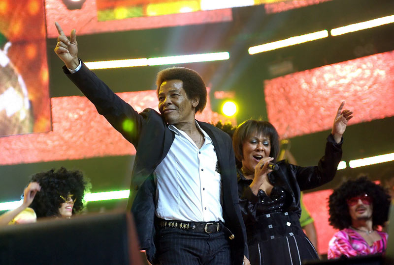 Ottawan at the International AvtoRadio's Festival "Disco of the 1980s".